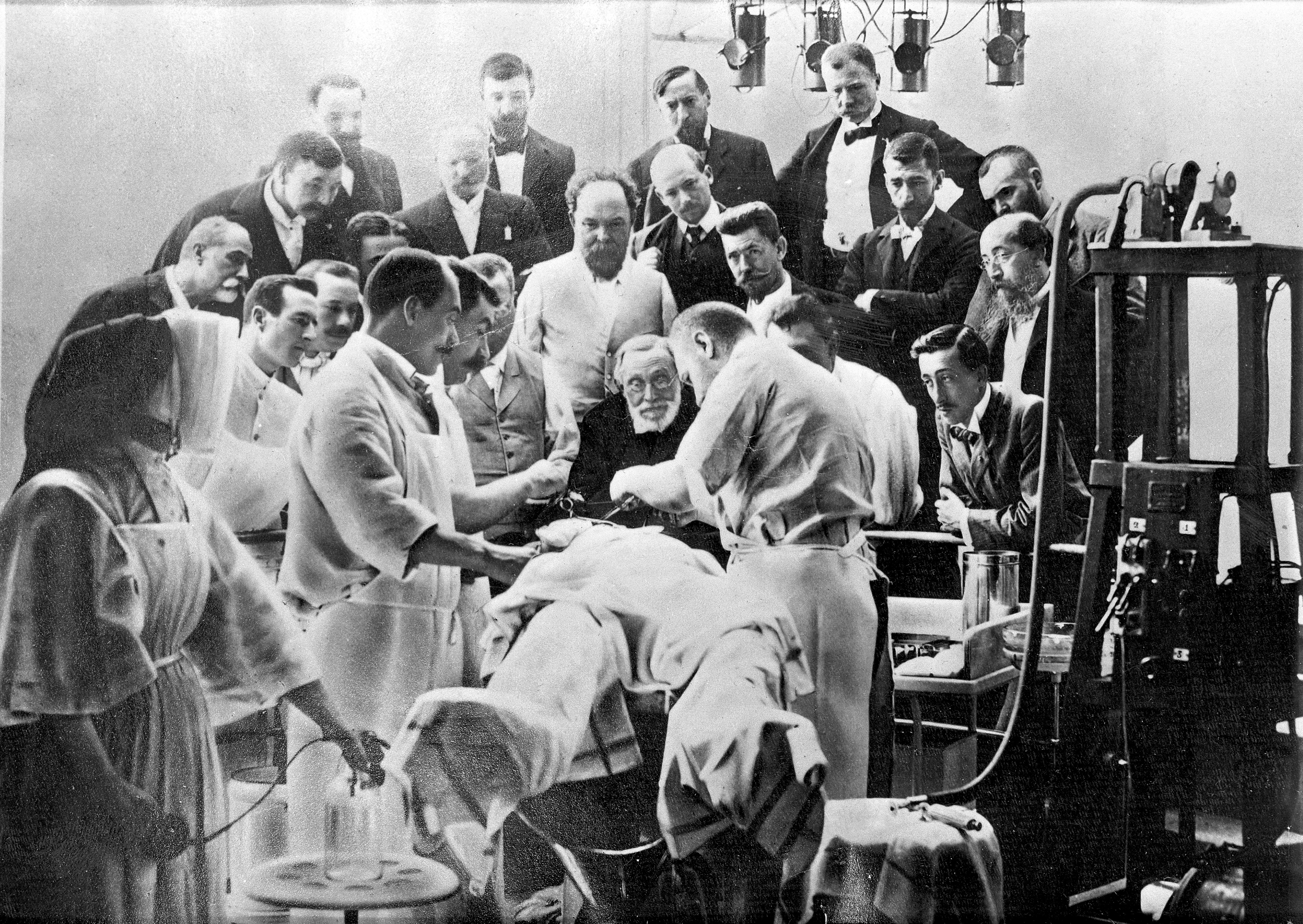 Rudolf Virchow observing an operation on the skull in a Paris Clinic, Historischer Bilderdienst, Berlin. Wellcome Images Keywords: SURGERY; Rudolf Ludwig Karl Virchow